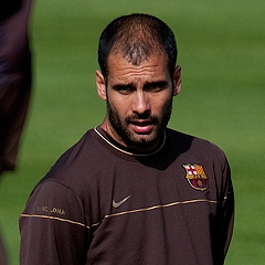 Entrenos antes de la épica de Roma.